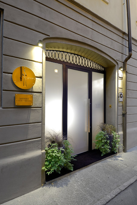 The entrance of Osteria la Francescana